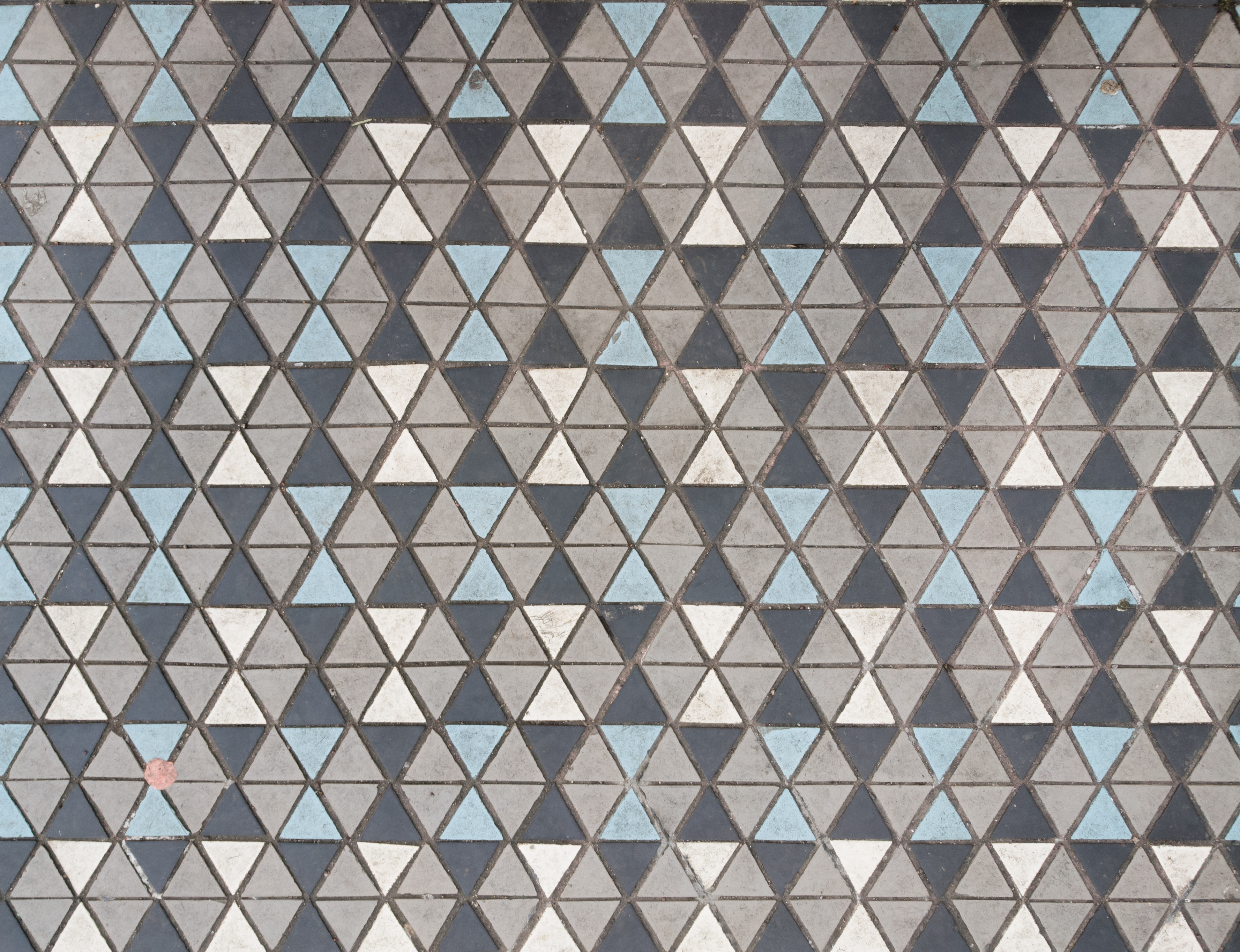 Pigeon fountain, Cologne. Mosaic.